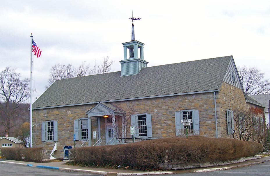 Ellenville United States Post Office − in Ellenville, New York. 1940 Colonial Revival style building by the WPA—Works Progress Administration. On the National Register of Historic Places in Ulster County, New York. Photographed by Daniel Case 2007-03-11